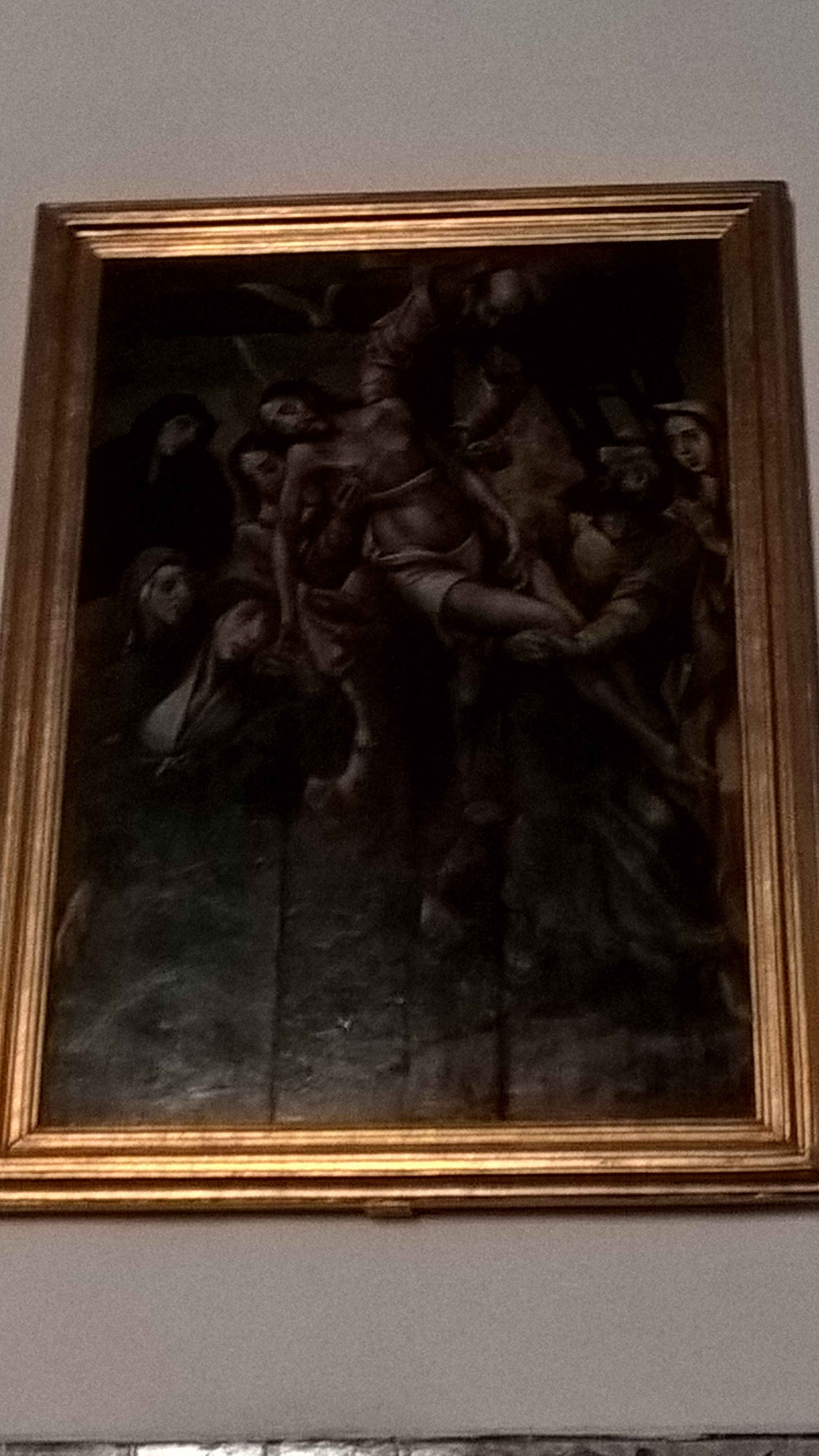 Deposição da Cruz na Igreja Matriz do Arco da Calheta, na ilha da Madeirq